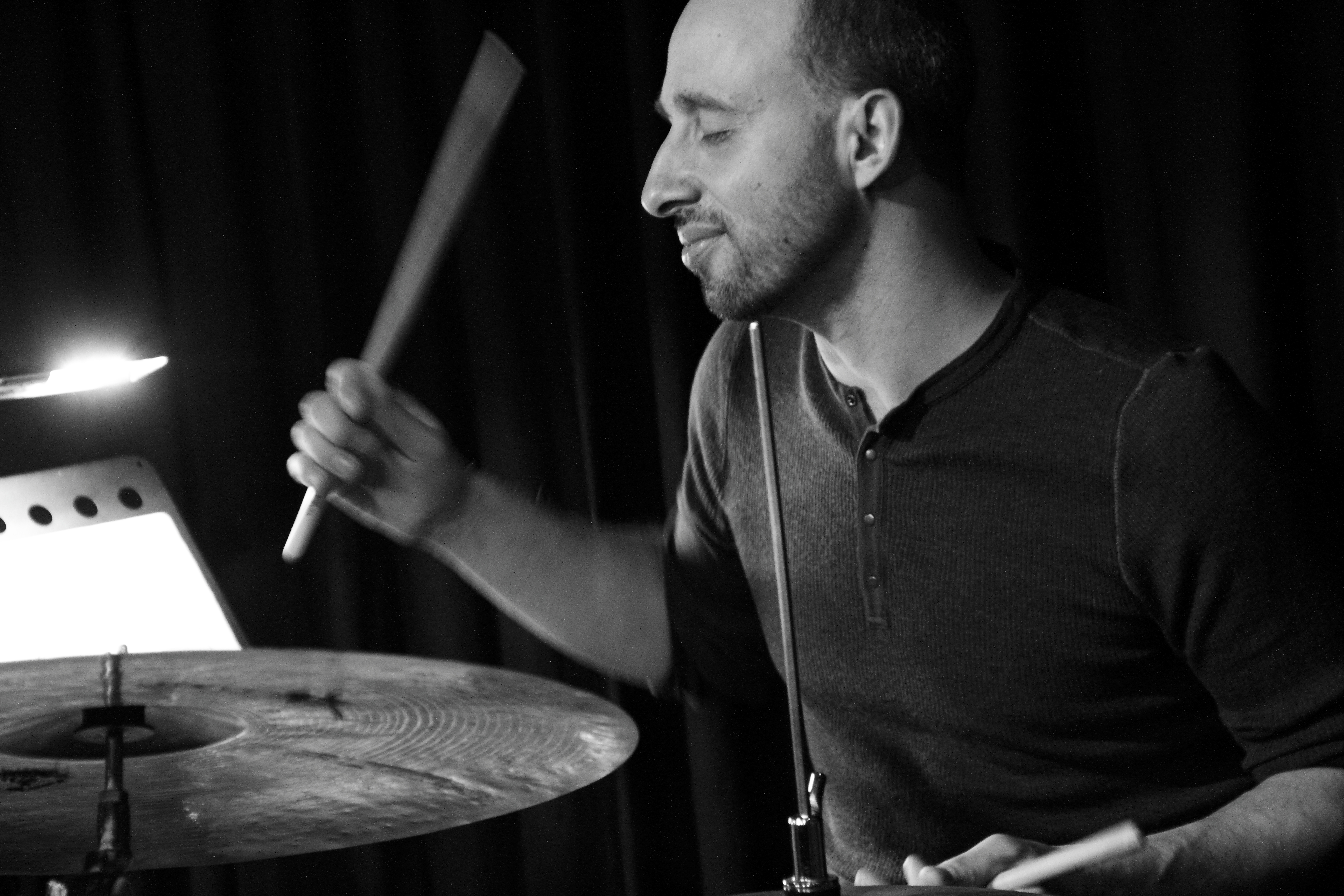 The Nate Wooley Quintet in concert at Club W71, Weikersheim..